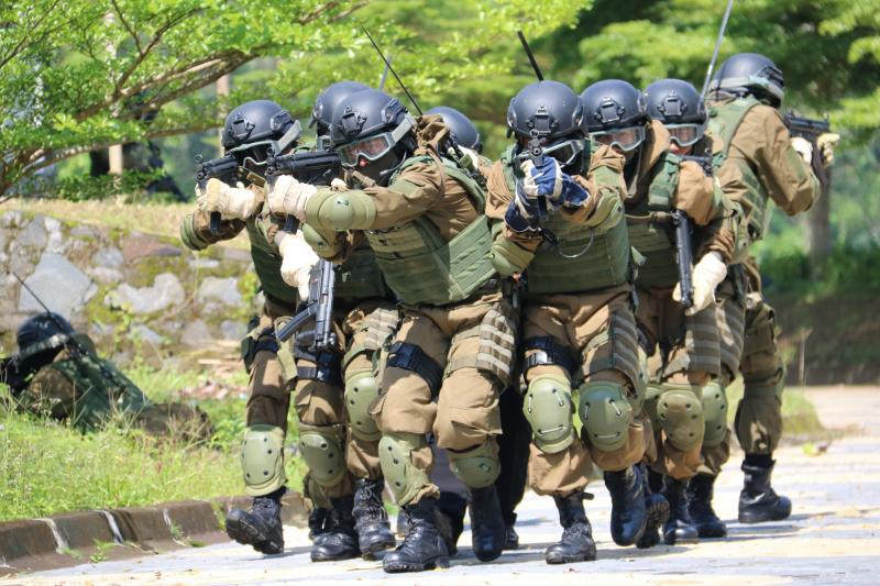 Indonesian Army soldiers from the Kostrad Reserve Unit